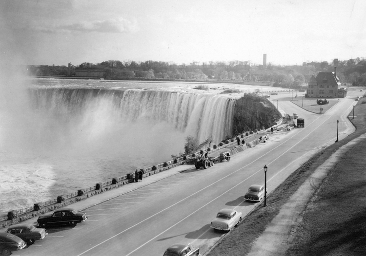 Photo of the scenic overlook of Niagara Falls on the Niagara Parkway in 1954.